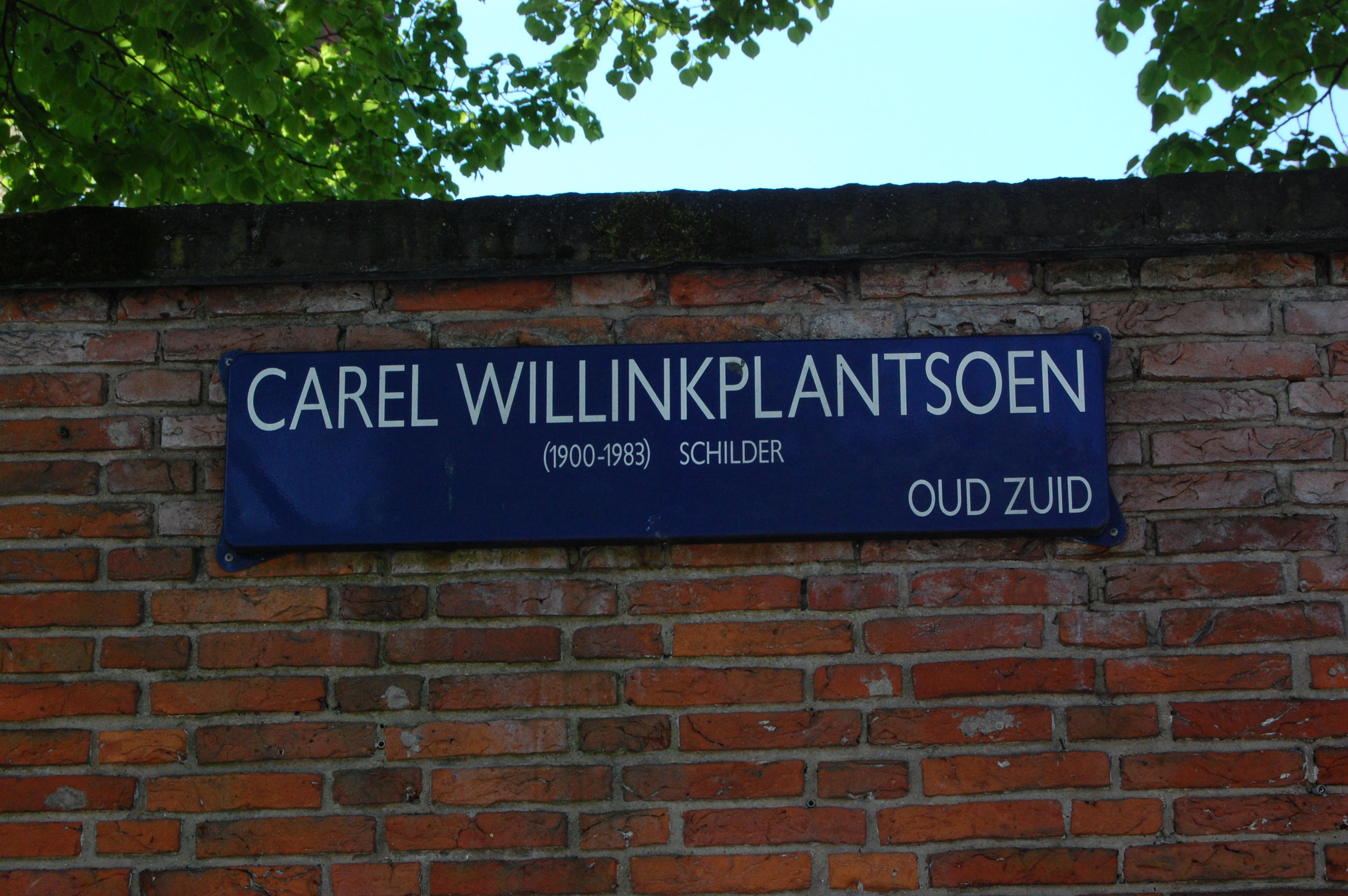 Street name plate, Oud Zuid, Amsterdam. Commemorates Carel Willink.